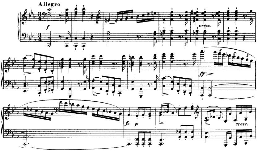 Opening of the sonata in score.